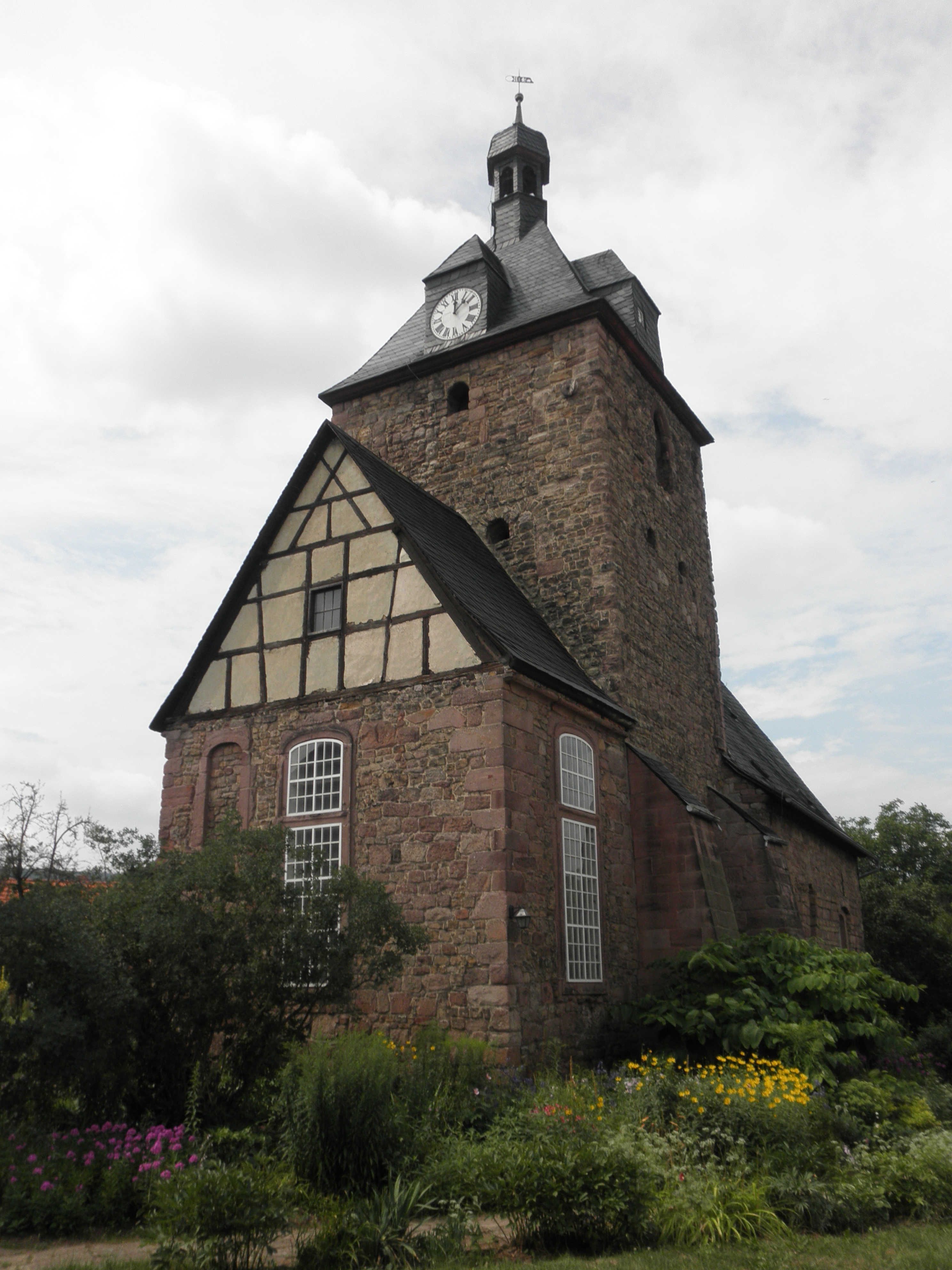 Church in Tilleda near Kyffhäuser (Sachsen-Anhalt)